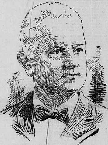 John B. Reddick, California Lt. Governor